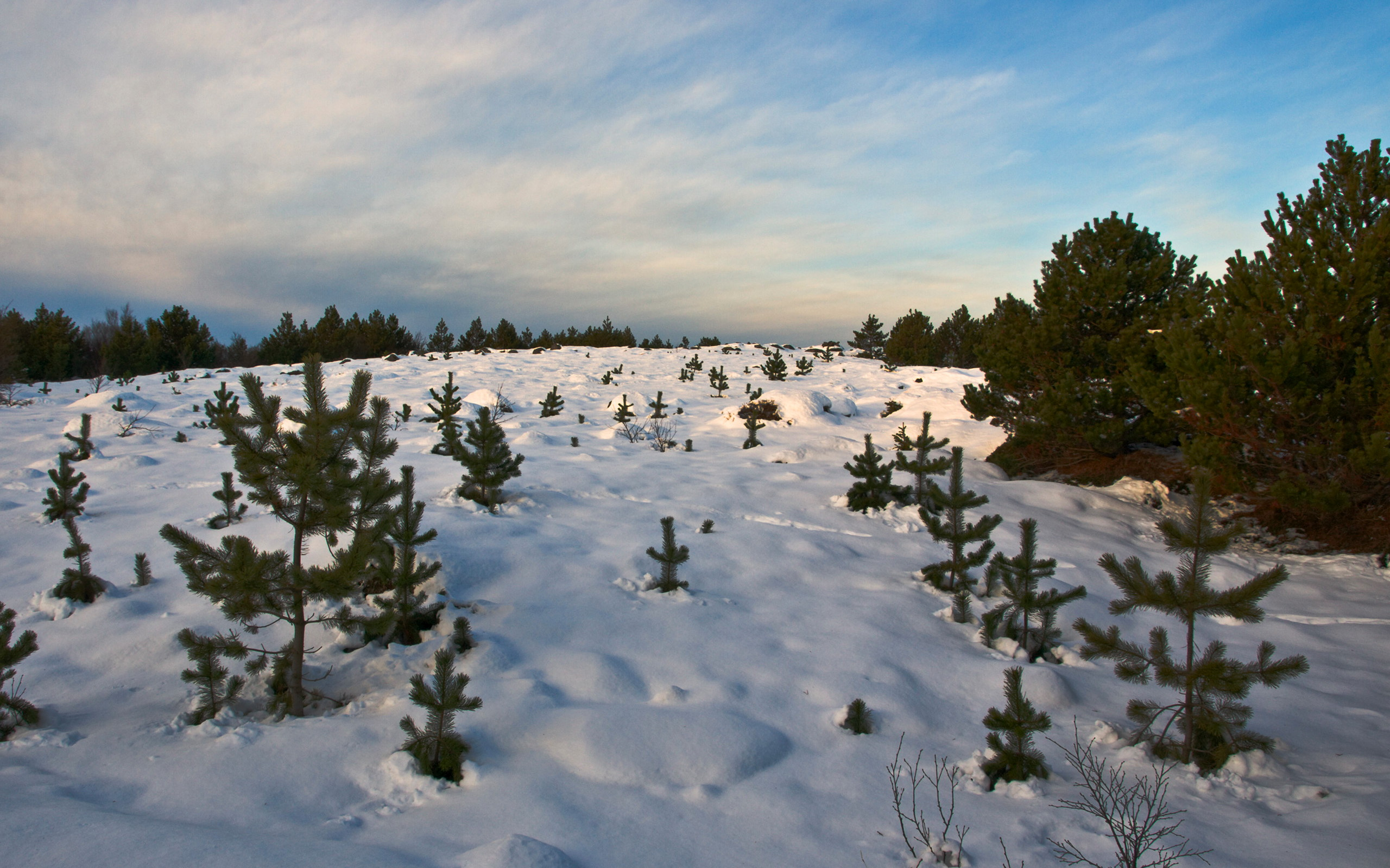 Young Pinus contorta in snow in a forestry plantation, Heiðmörk, Iceland